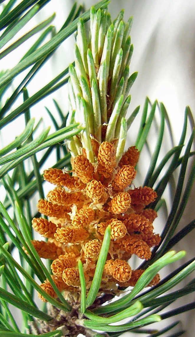 Pine cones, immature male. The yellow coating on the cone is pine pollen that will fall once the pine cone has reached maturity, numerous nutritional benefits can be found in the pine pollen..